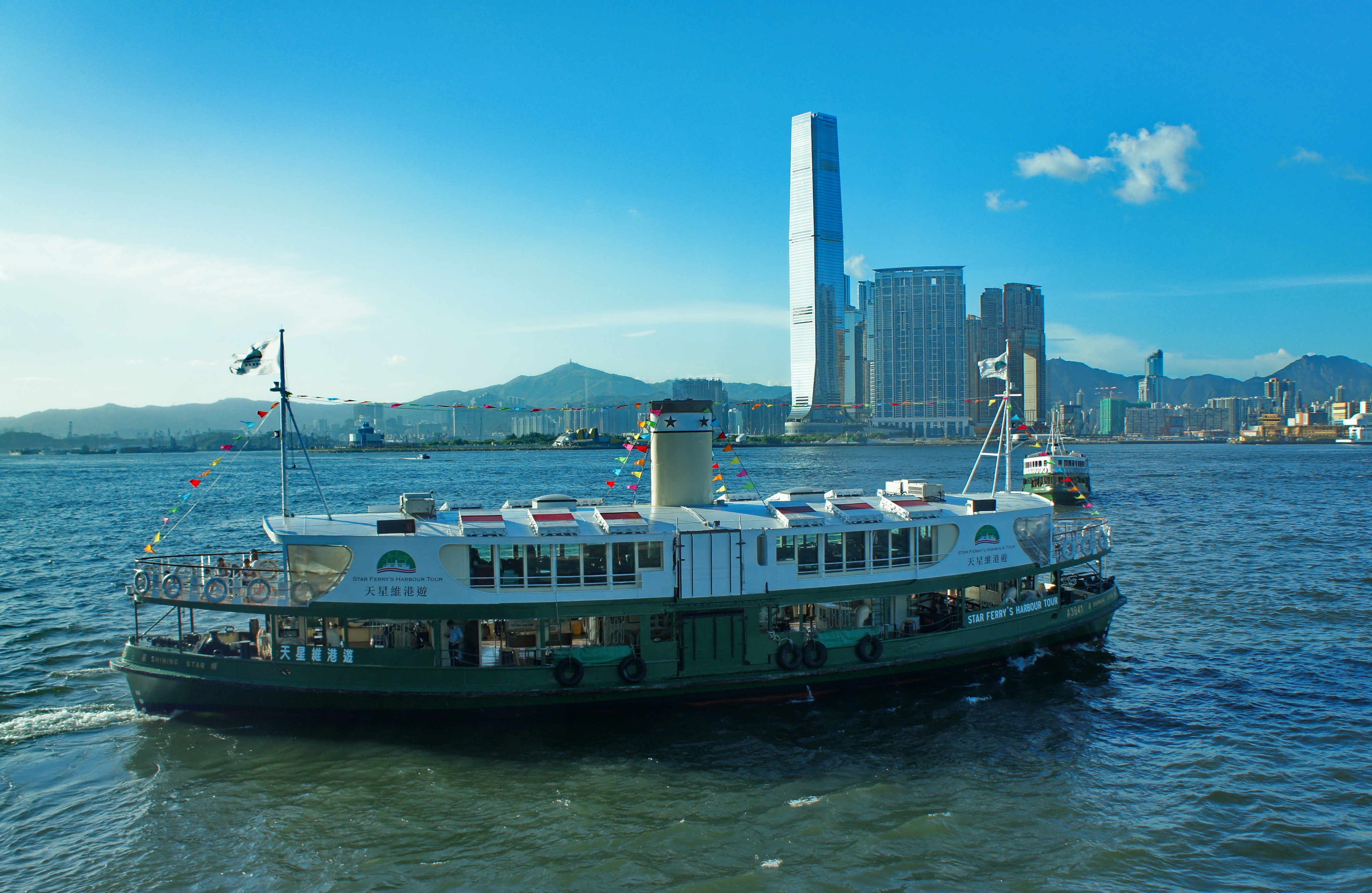 Star Ferry's Harbour Tour, Shining Star, Hong Kong.